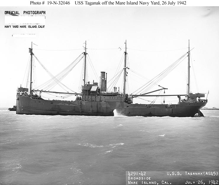 Taganak (AG-45) off Mare Island Navy Yard, Vallejo, CA., 26 July 1942.